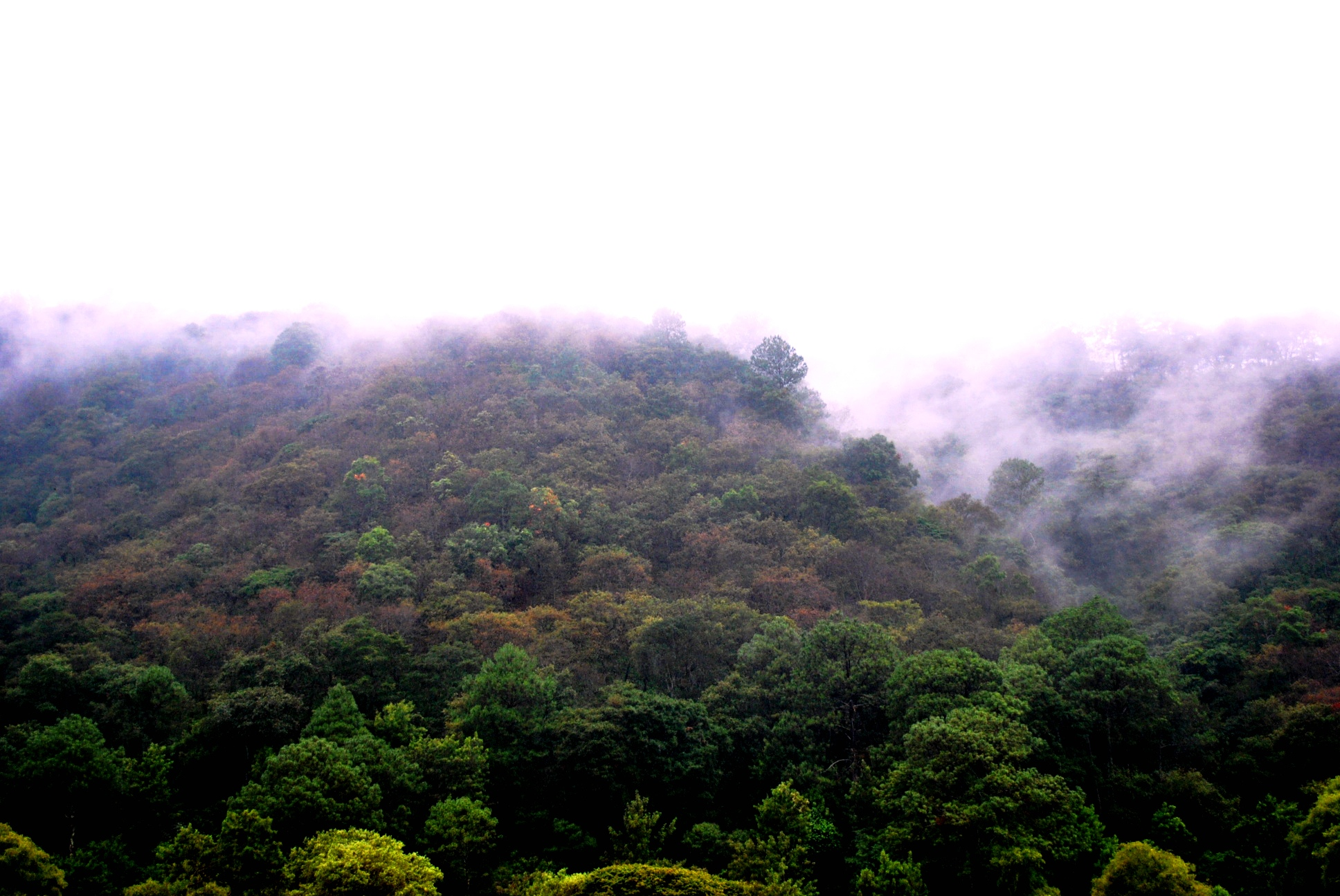 Pine-oak forest in Chimaltenango, north of Sumpango.